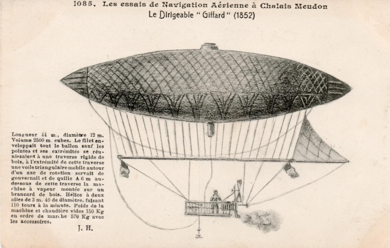 “Giffard” non-rigid airship, one of the first operational airship, first flight in 1852 - vintage postcard by J.H edition